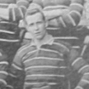 Photo of Alan Ayre Smith